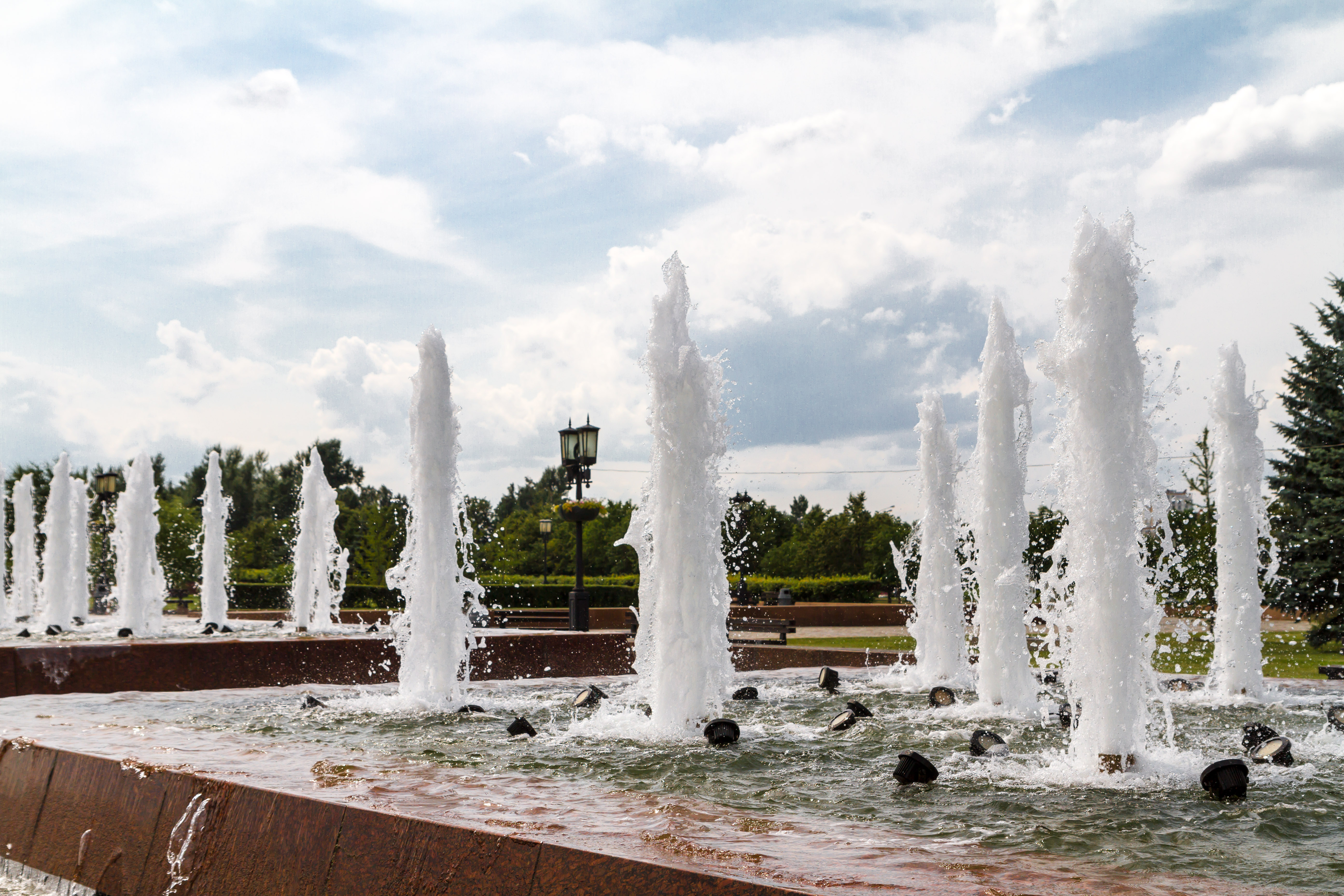 Dorogomilovo District, Moscow, Russia